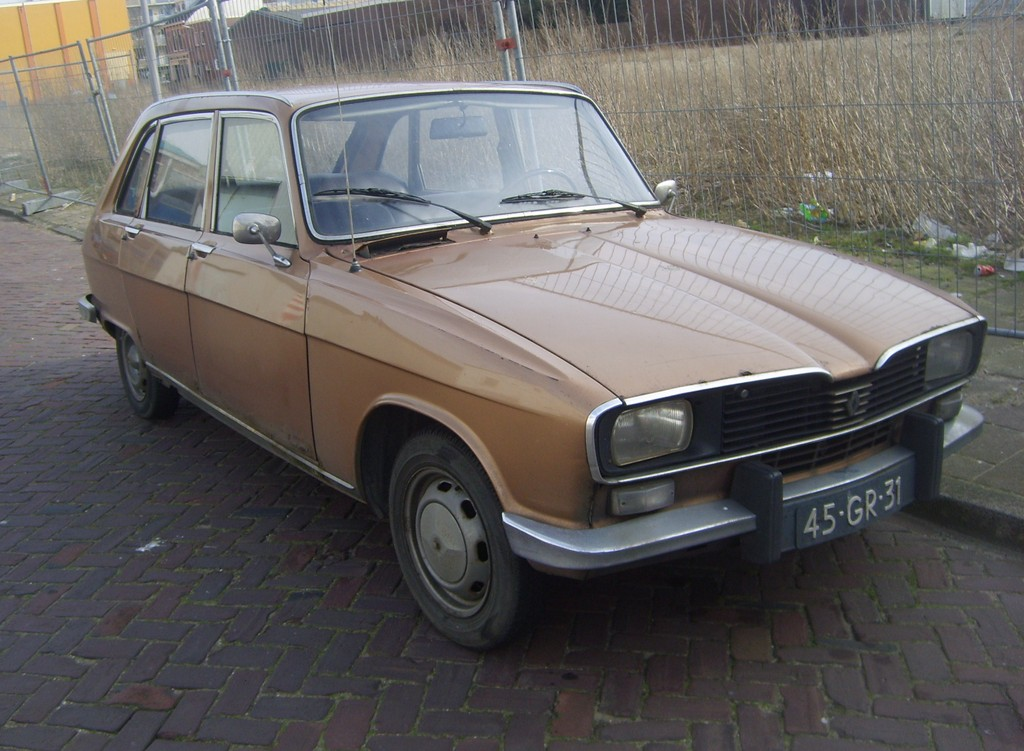 1975 Renault 16 TL as per the Dutch registration authorities (45-GR-31)